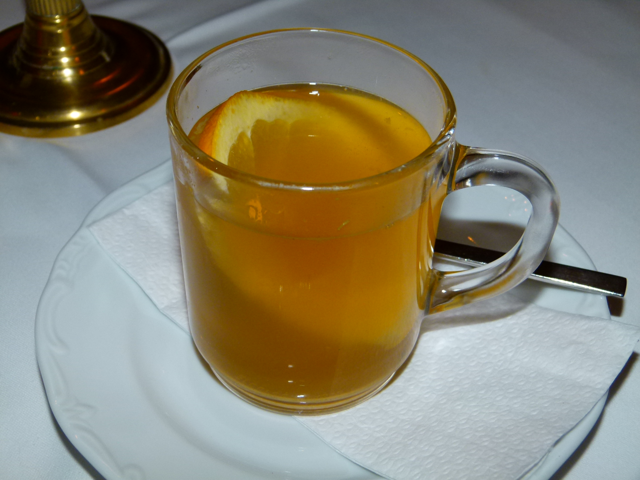 White mulled wine, based on white wine and orange, Restaurant "Kanzlei", Dresden